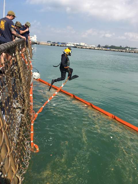 170823-N-OU129-003 SINGAPORE (Aug. 23, 2017) A U.S. Navy diver enters the water while conducting diving operations in support of the guided-missile destroyer USS John S. McCain (DDG 56) at Changi Naval Base in Singapore Aug. 23, 2017. John S. McCain sustained significant damage following a collision with the merchant vessel Alnic MC while underway east of the Strait of Malacca and Singapore on Aug. 21, 2017. (U.S. Navy photo by Master Chief Joshua Dumke/Released)